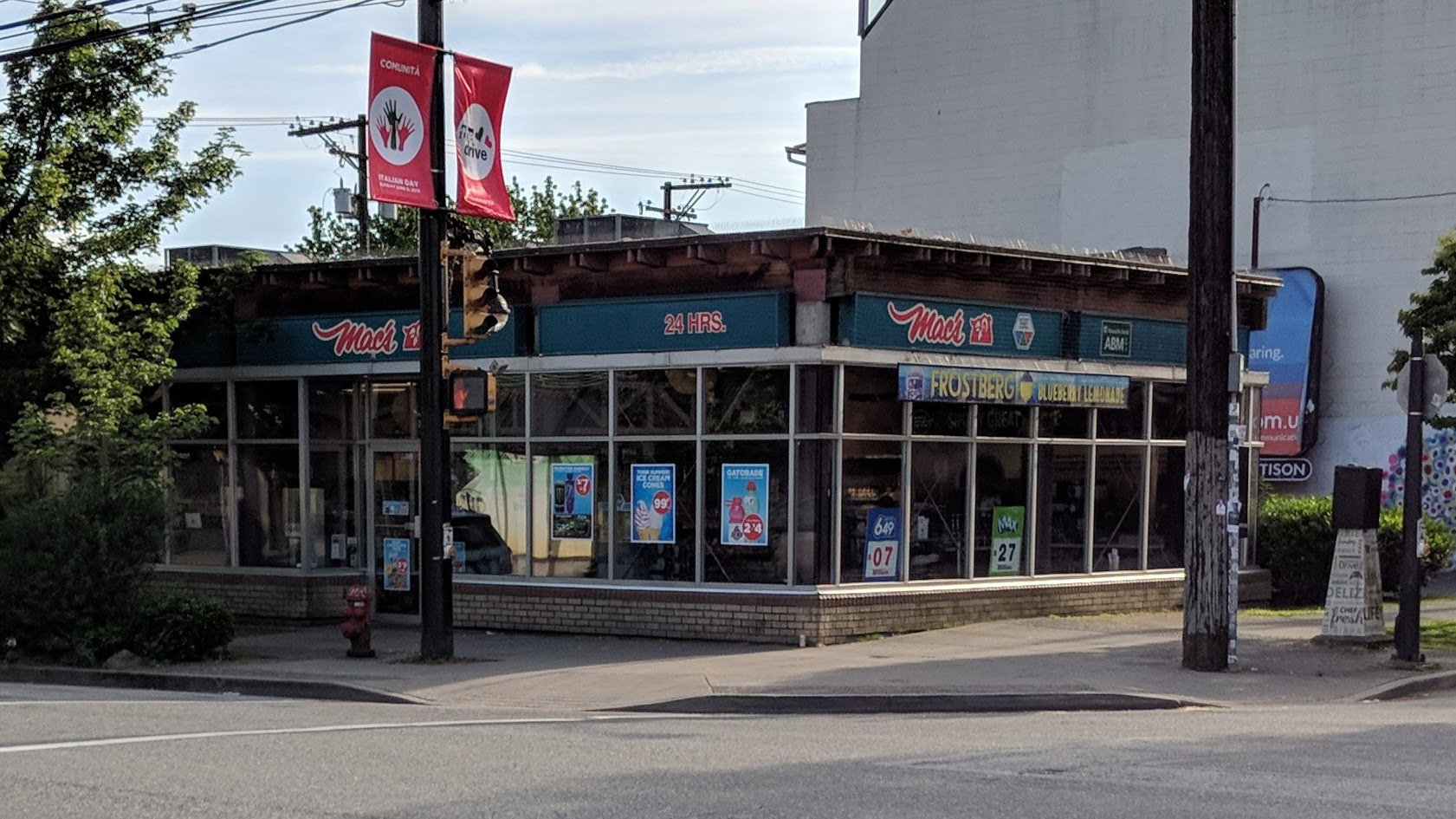 Mac's convenience store on Commercial Drive in Vancouver. May 2019.